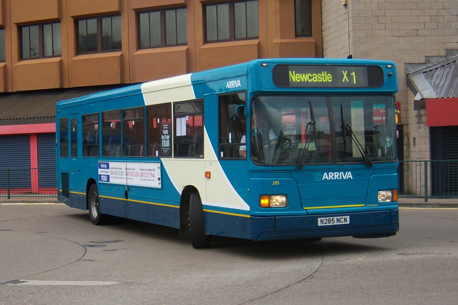 Arriva buses in Middlesbrough bus station.